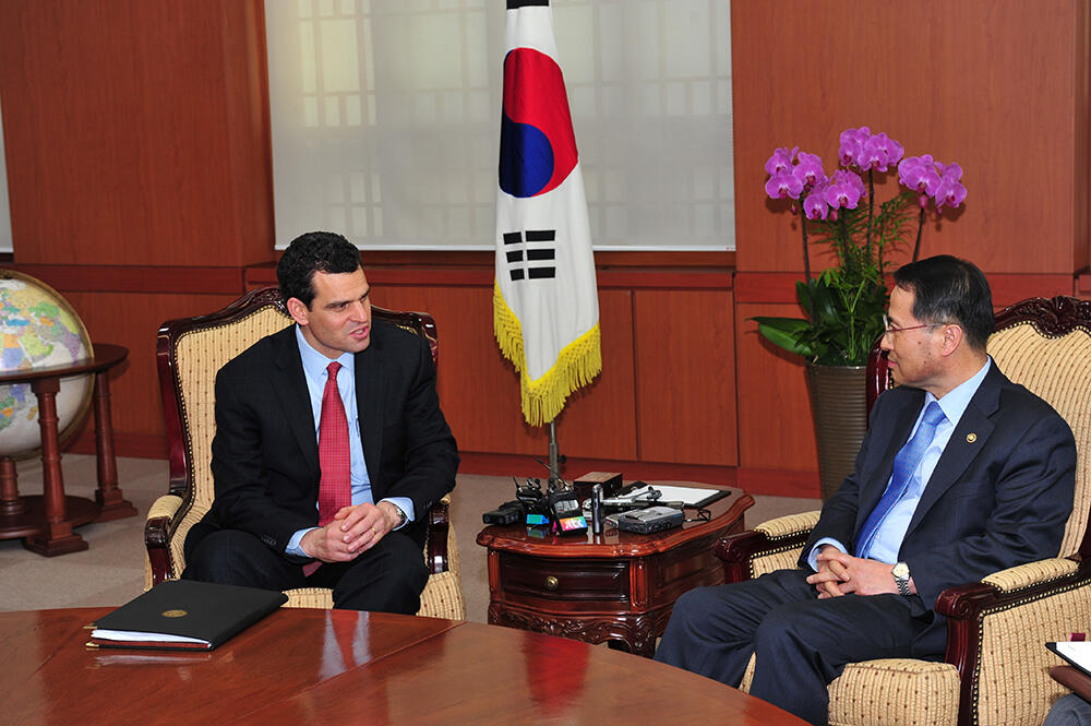 U.S. Treasury Under Secretary for Terrorism and Financial Intelligence, David Cohen, speaks with Kim Kyou-hyun, the First Vice Minister of Foreign Affairs at the Ministry of Foreign Affairs and Trade in South Korea on Wednesday, March 20, 2013 During Cohen’s four day trip to Tokyo, Seoul, and Beijing, discussions focused on implementing sanctions against the Democratic People’s Republic of Korea as well as Iran. (Photo by U.S. Embassy in Seoul)